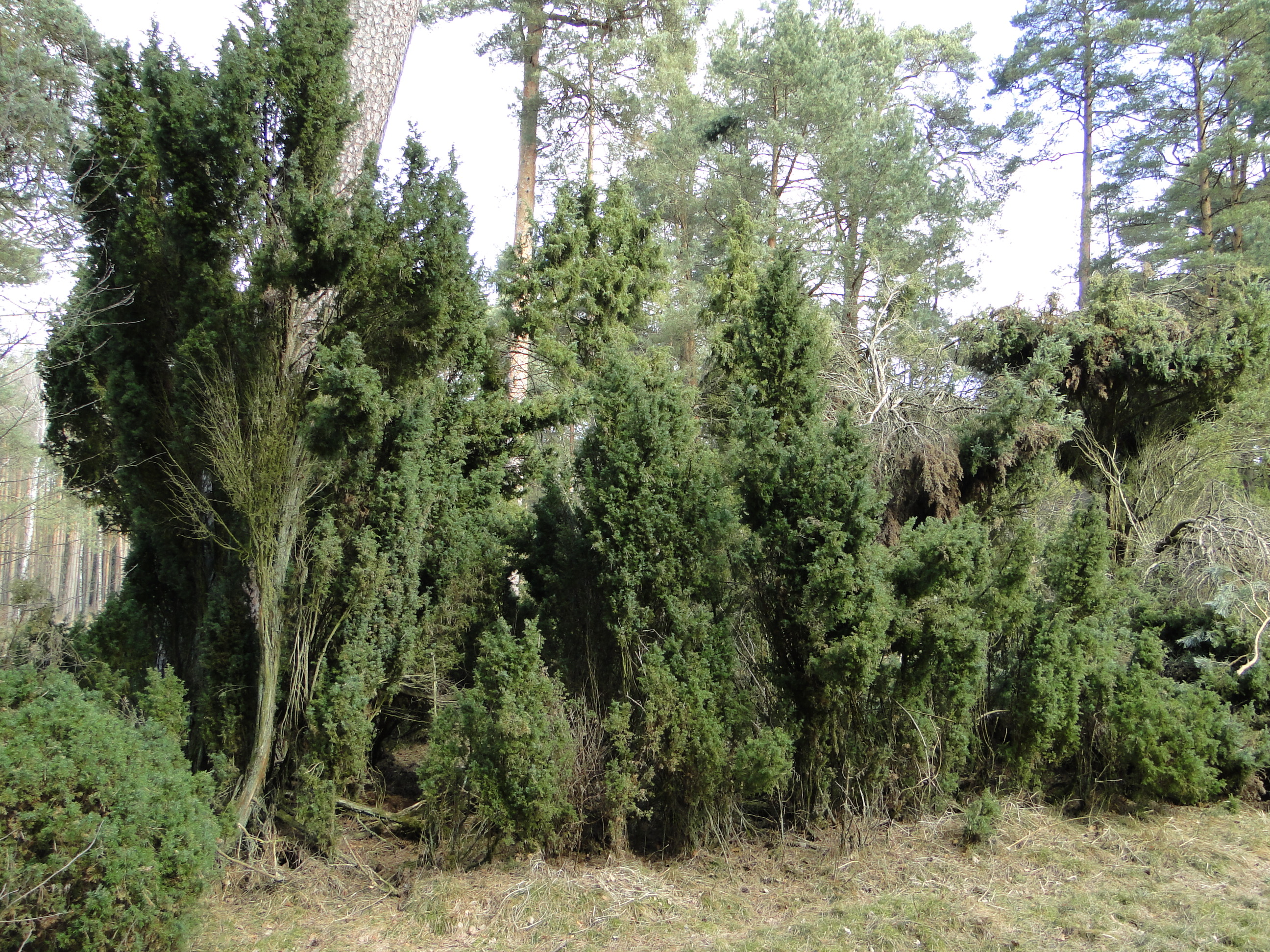 Nature reserve "Flächennaturdenkmal Wacholderbestand Abt. 4184 Forstrevier Jellen" in Jellen, district Parchim, Mecklenburg-Vorpommern, Germany